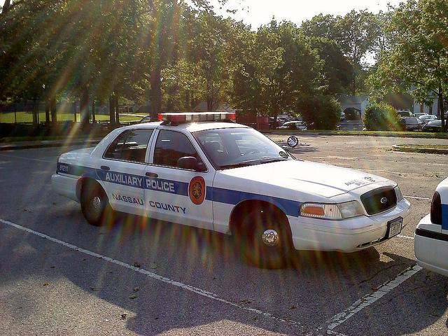 Nassau County Auxiliary Police RMP